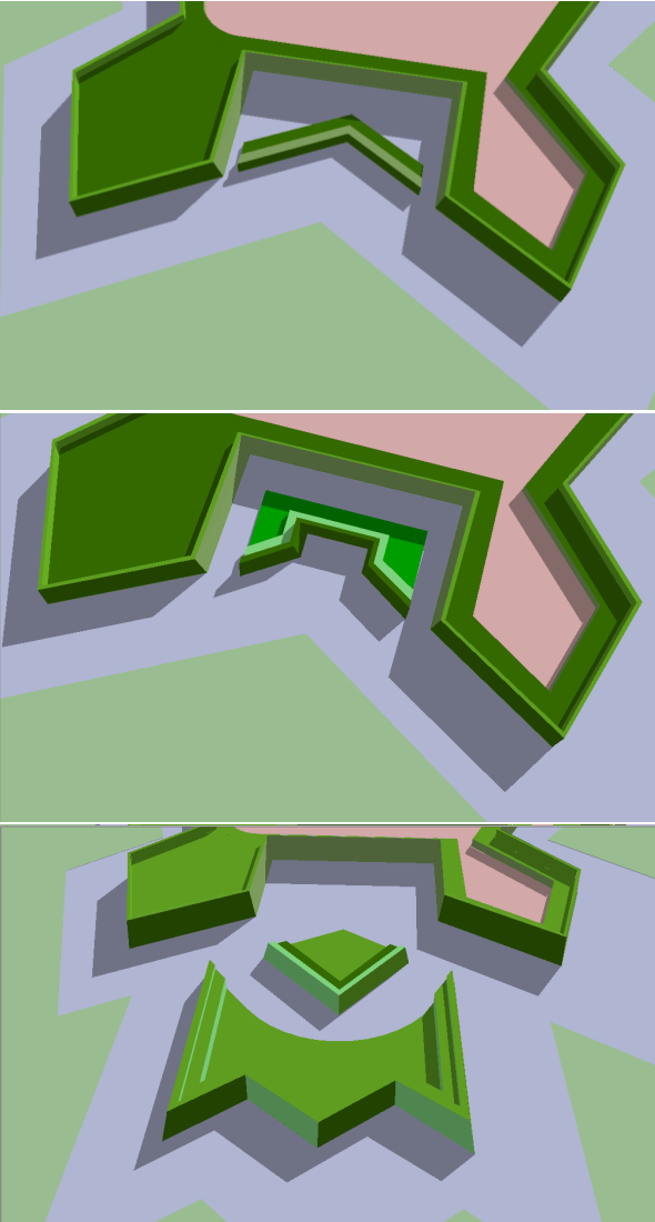 Example of Tenaille, part of fortifications